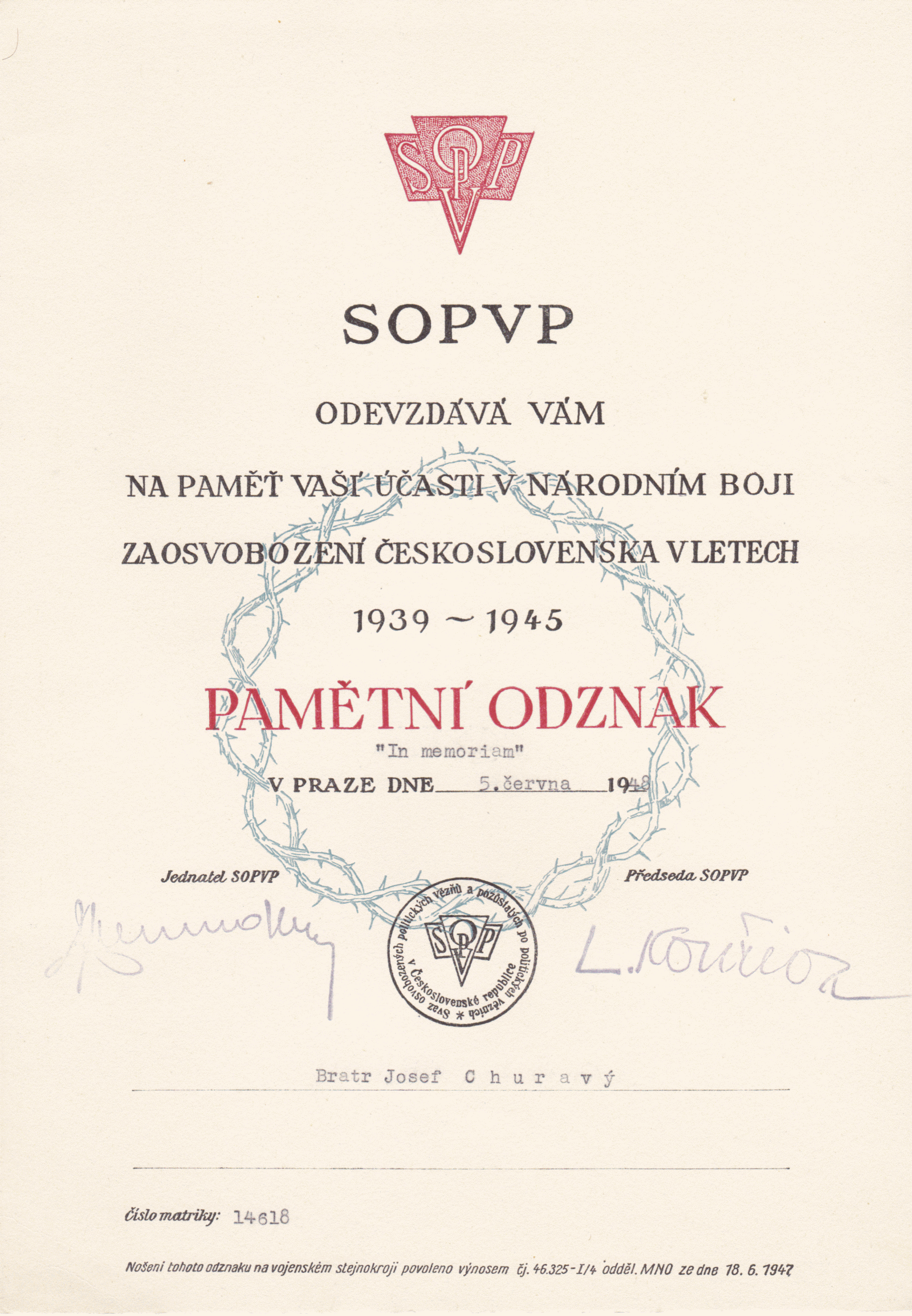 Document on commemorative badge to brother Josef Churavý SOPVP reminds you of your participation in the national struggle for the liberation of Czechoslovakia in 1939 - 1945. Memorial badge (in memoriam). Prague, 5 June 1948. Signed: SOPVP Managing Director and Chairman of SOPVP (SOPVP = Association of Liberated Political Prisoners and Survivors of Political Prisoners in the Czechoslovak Republic) Wearing this badge on military uniform was allowed by decree No. 46.325-I / 4 section of MNO of 18 June 1947.